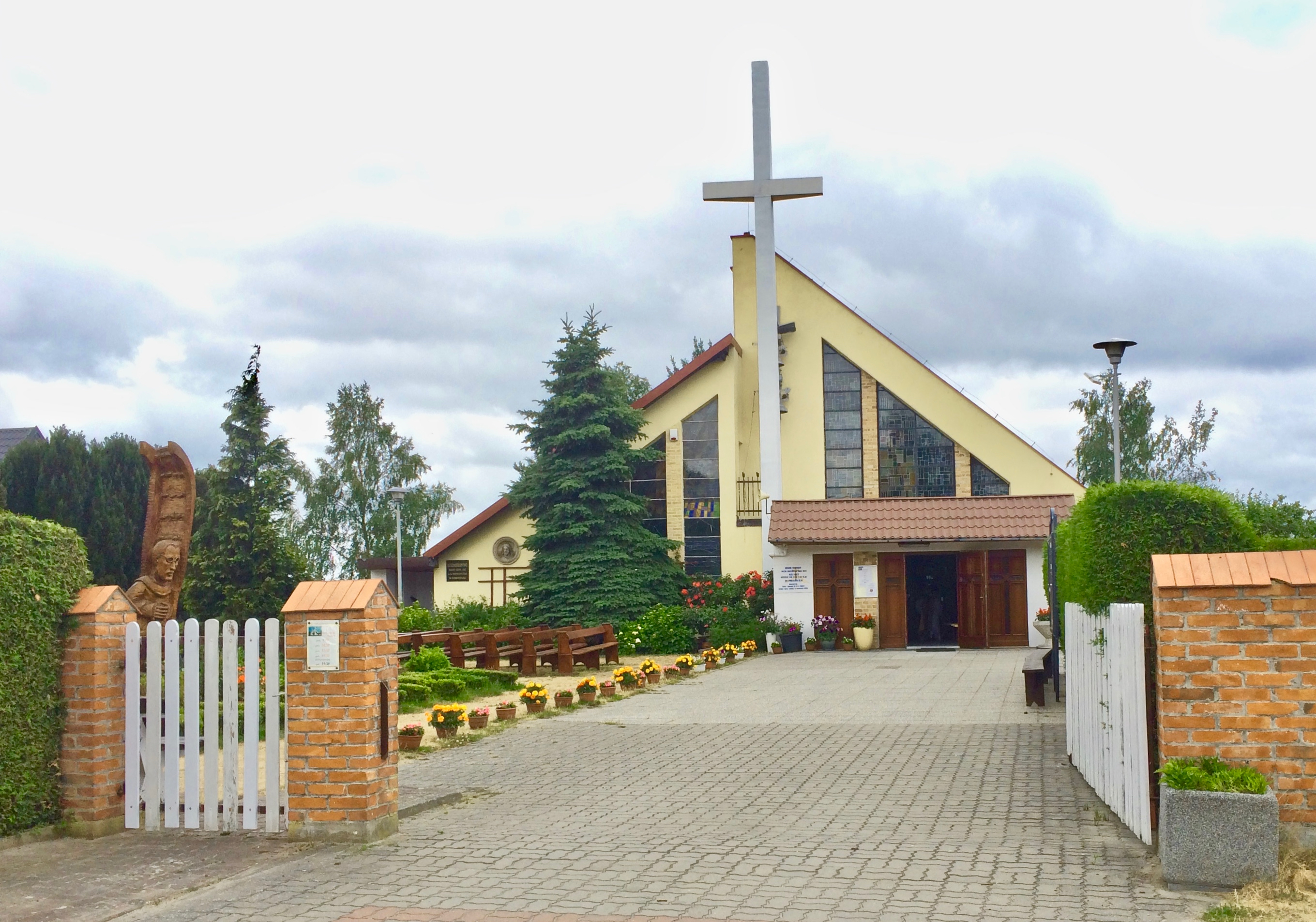 Rome-Catholic Church in Dziwnówek, Poland